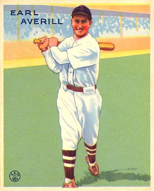 1933 Goudey baseball card of Earl Averill of the Cleveland Indians #194. PD-not-renewed.